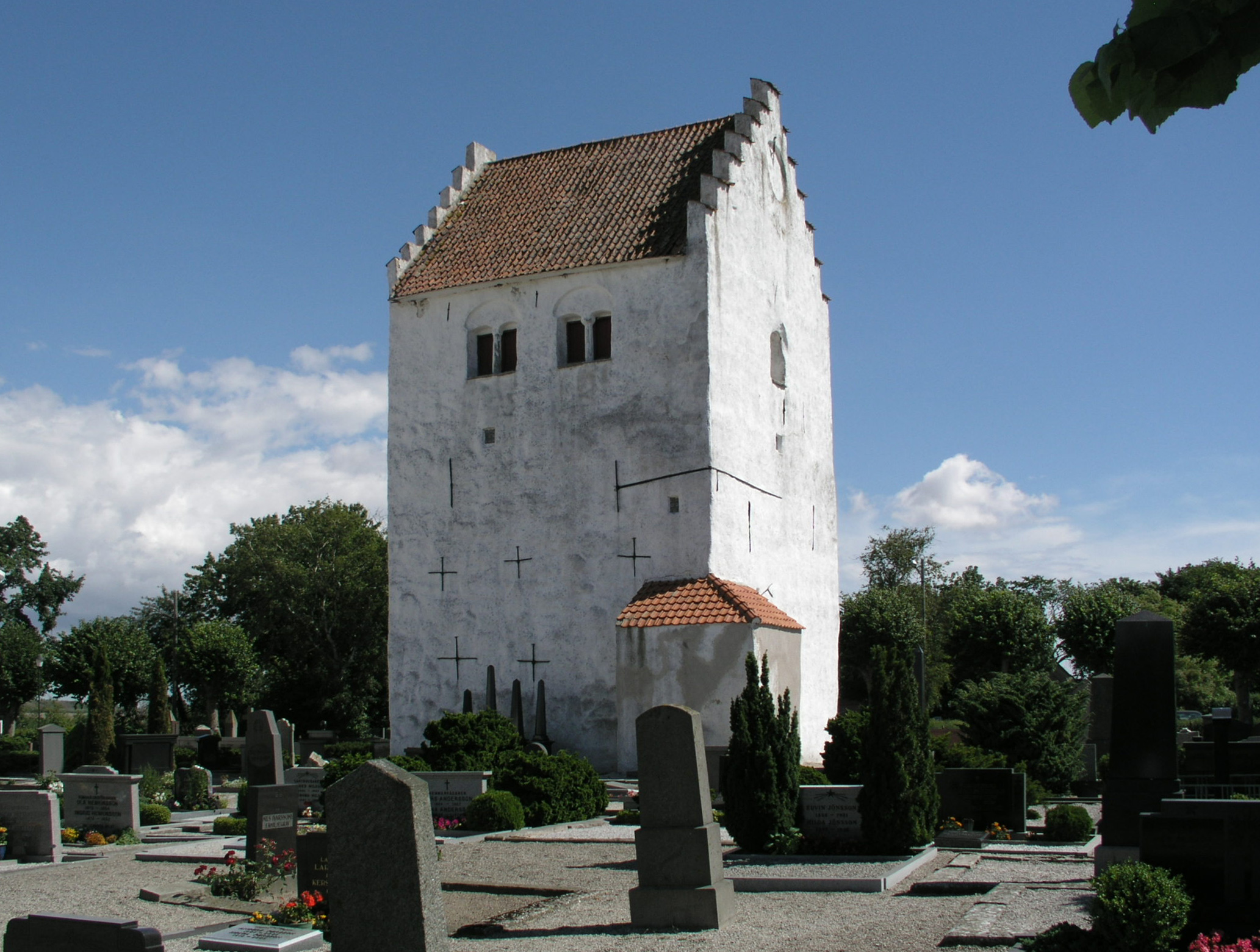 Valleberga kyrka/church. Castal